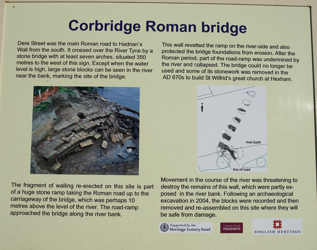 Corbridge Roman Bridge Information Board. Information board next to1260805.